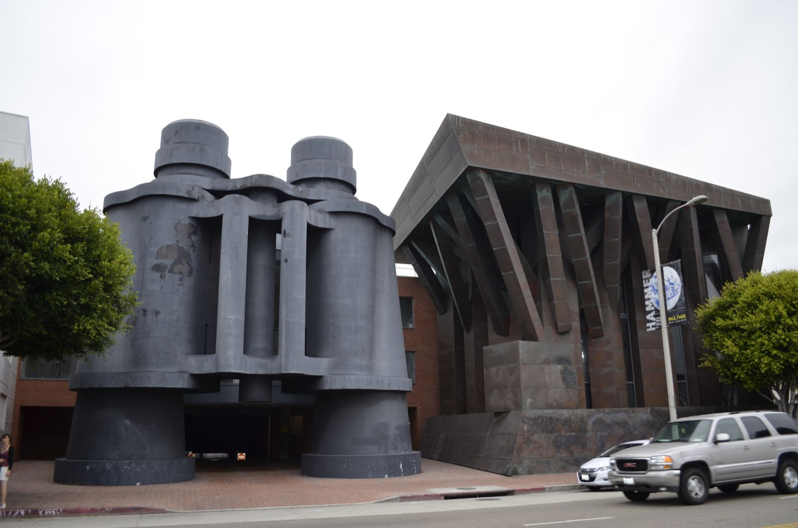 The Binoculars Building on Main Street, Venice Beach